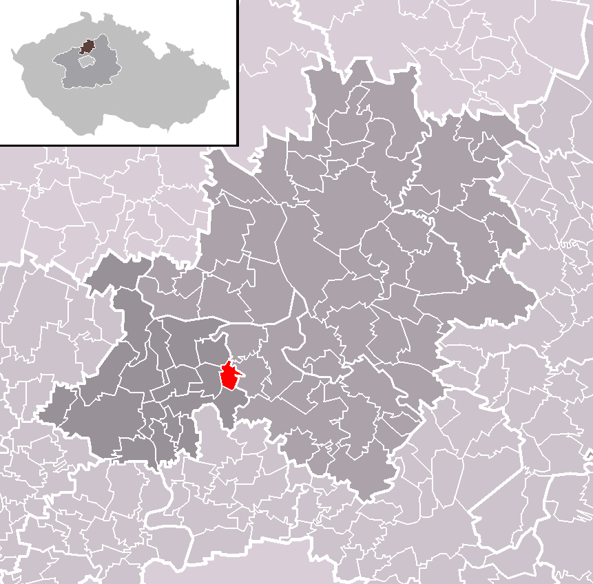 Location of Újezdec municipality within Mělník District and administrative area of Kralupy nad Vltavou as a Municipality with Extended Competence.